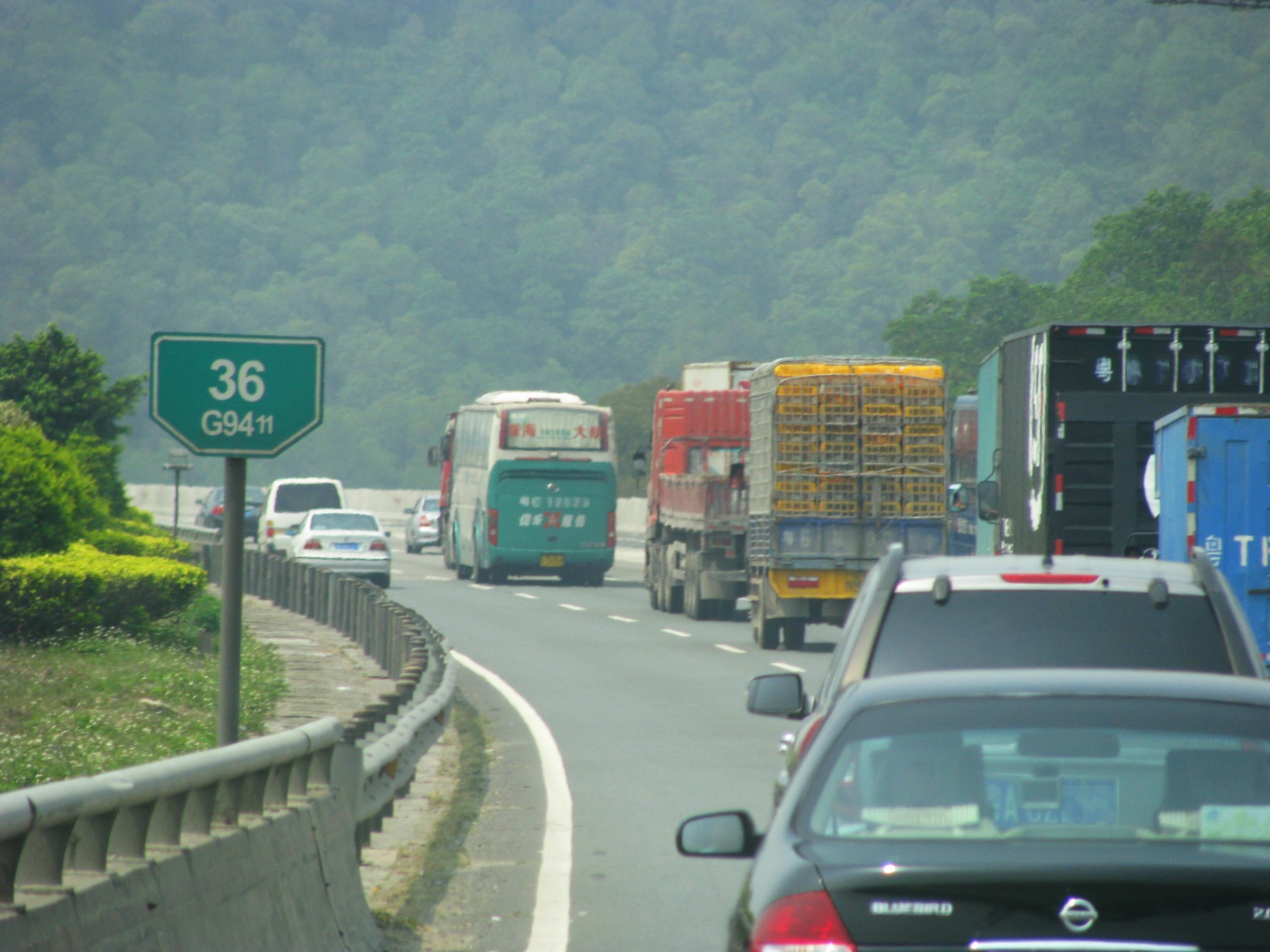 The G9411 Dongguan–Foshan Expressway in China.